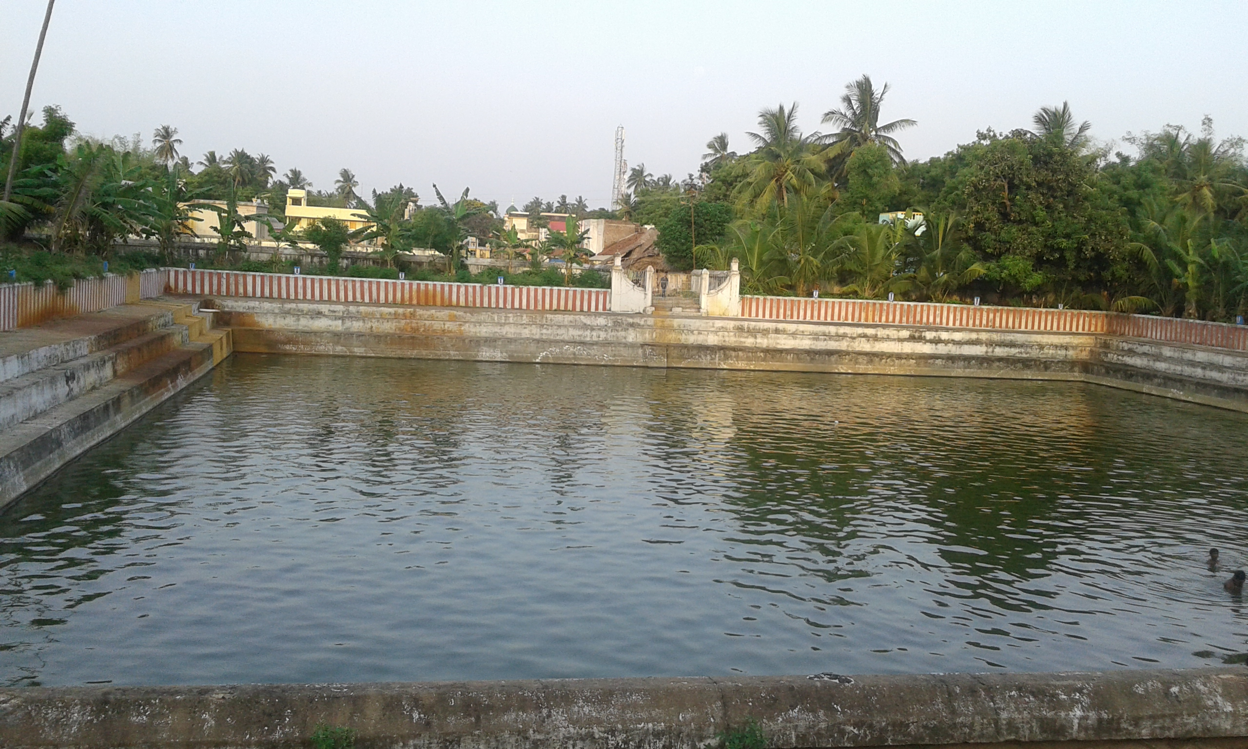 Therazhunthur